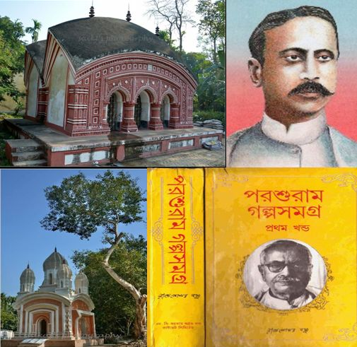 Temple Photogarphy by Saikat Majumder, Birnagar, Nadia, West Bengal